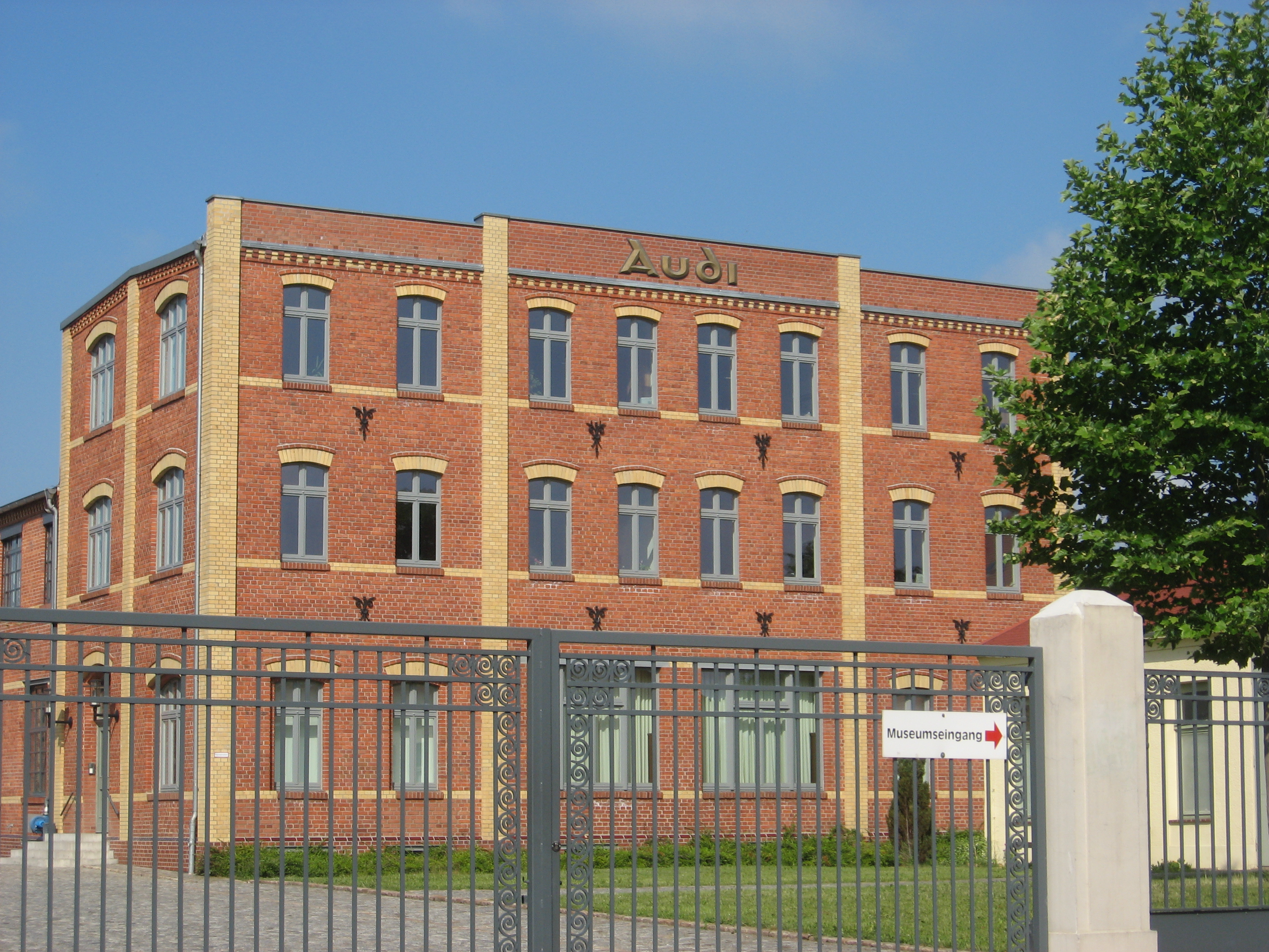 Subject: The old Audi plant in Zwickau Author: Luc106 Date:June 12th, 2011 Place/Country: Zwickau, Germany I release all rights in the public domain.